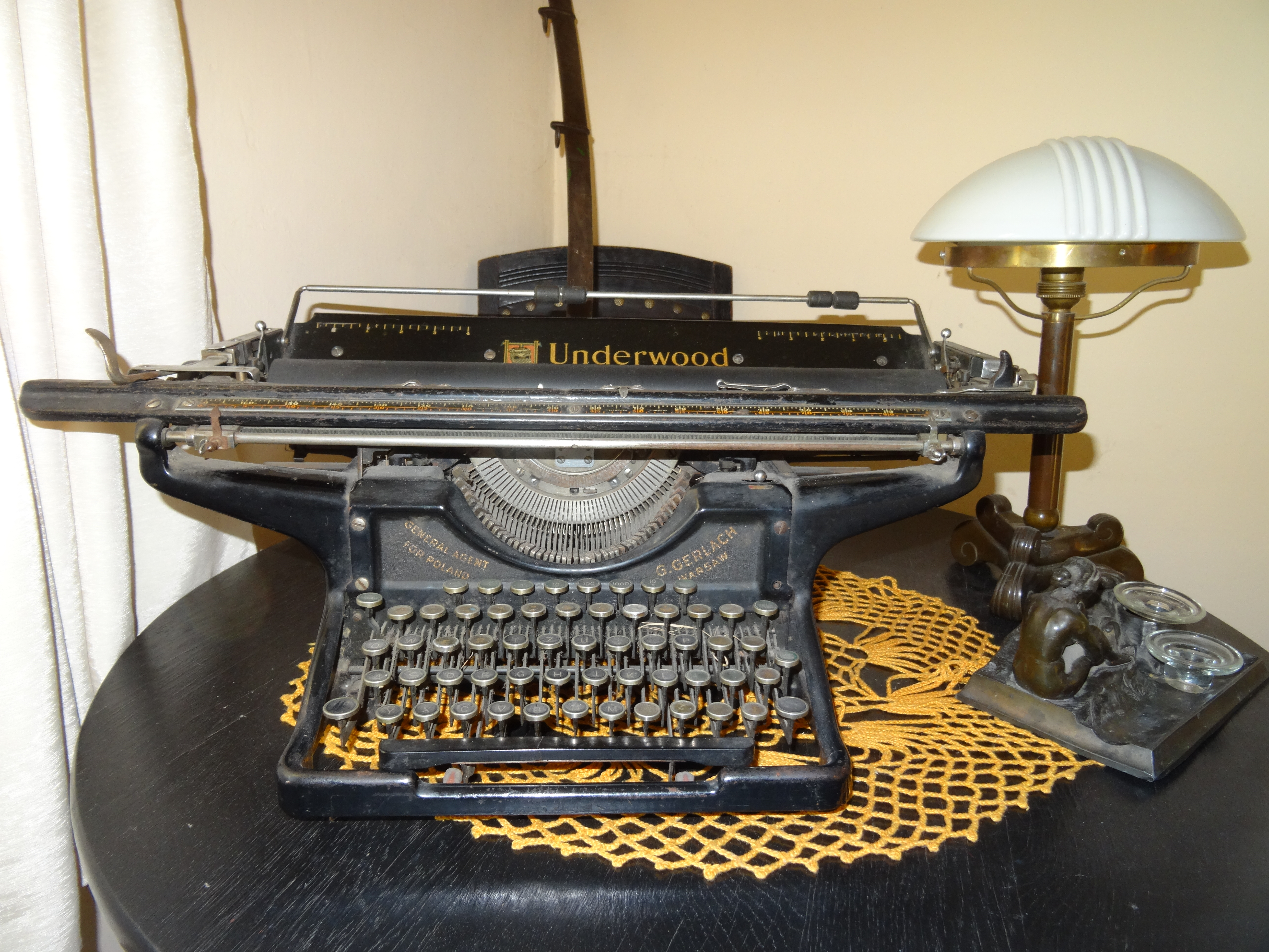 Underwood typewriter Poland before 1939. "General Agent for Poland G. Gerlach Warsaw"